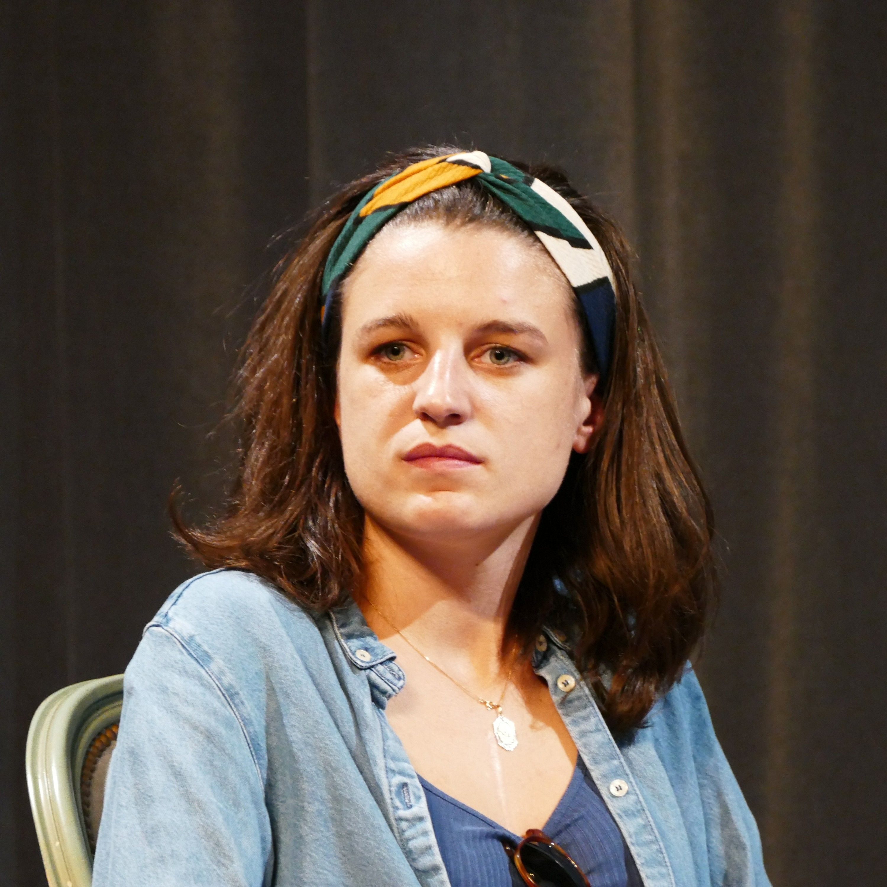 Eugénie Bastié at théâtre Montansier in Versailles (Yvelines, Île-de-France, France).